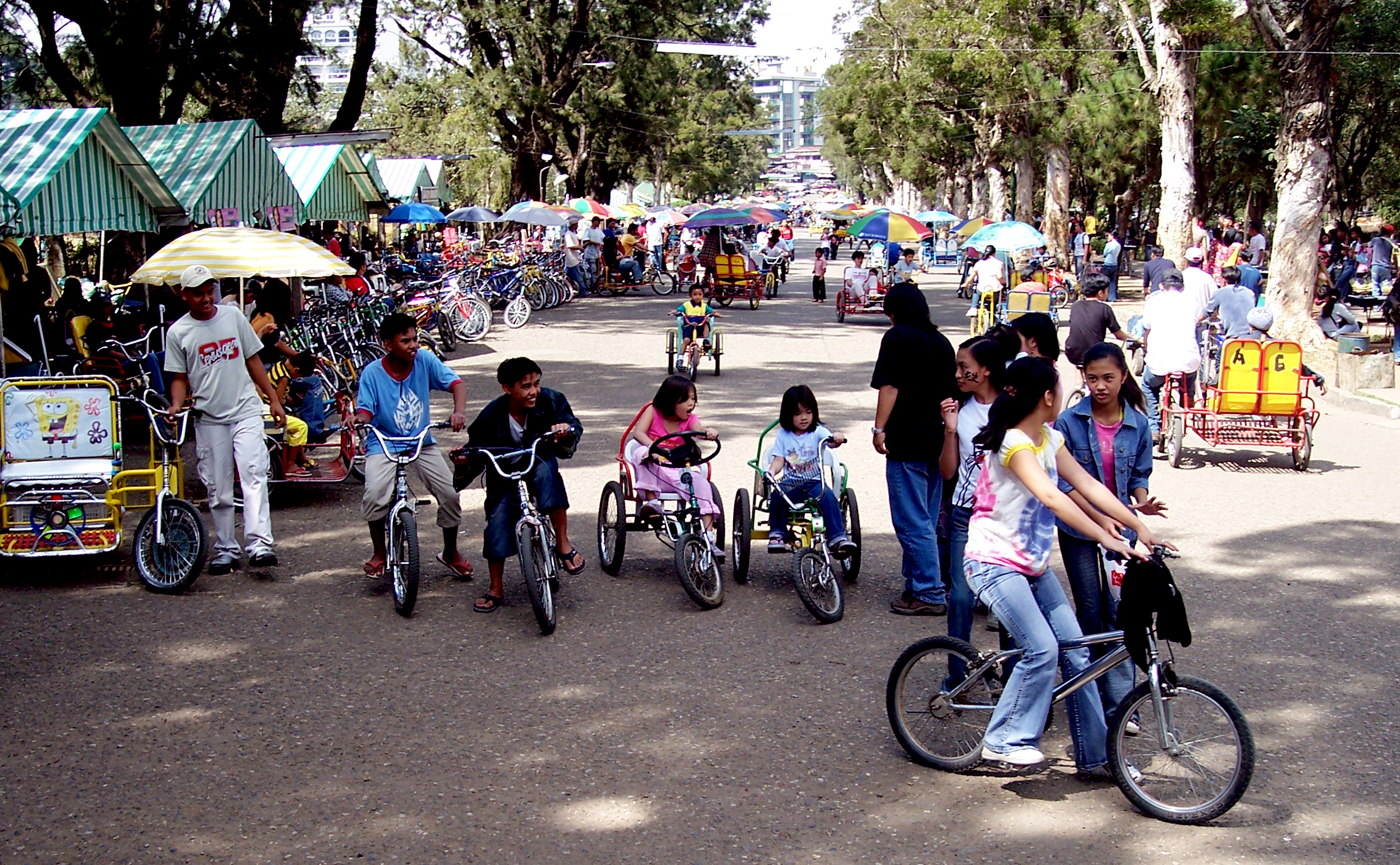 Trikes, and bicycles (with or without sidecars) at Burnham Park in Baguio.